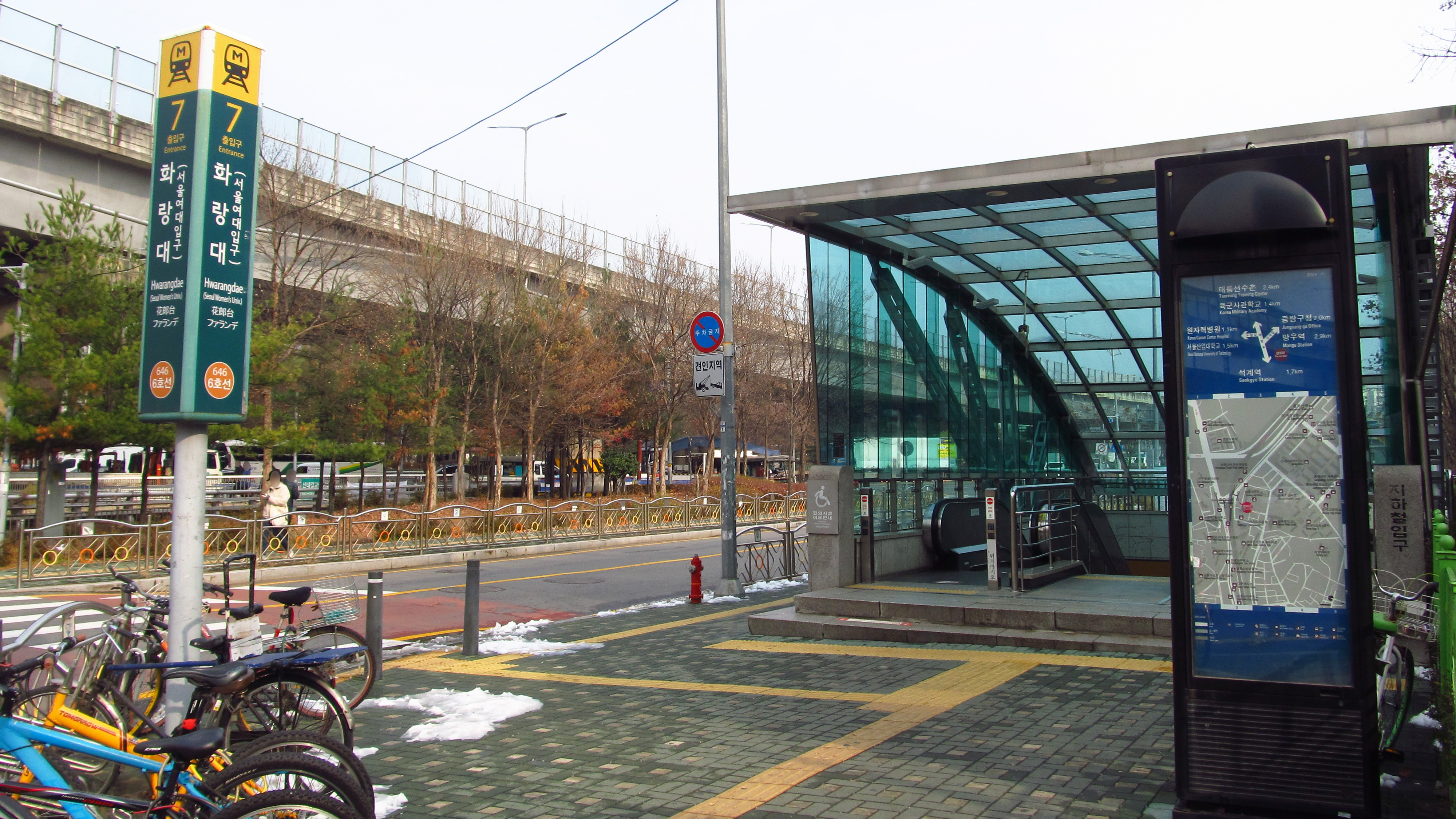 The no.7 entrance to Hwarangdae Station on Seoul Subway Line 6 in Jungnang-gu, Seoul, Republic of Korea(South Korea)